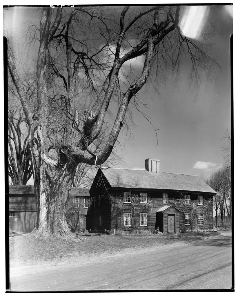 Photographic view of the Benjamin Abbott Farmhouse, seen from the southwest, Andover Street and Argilla Road, Andover, Essex County, Massachusetts. Historic American Buildings Survey, Library of Congress, Washington, D.C.